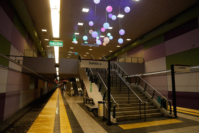 Catalinas station days before it's inauguration.